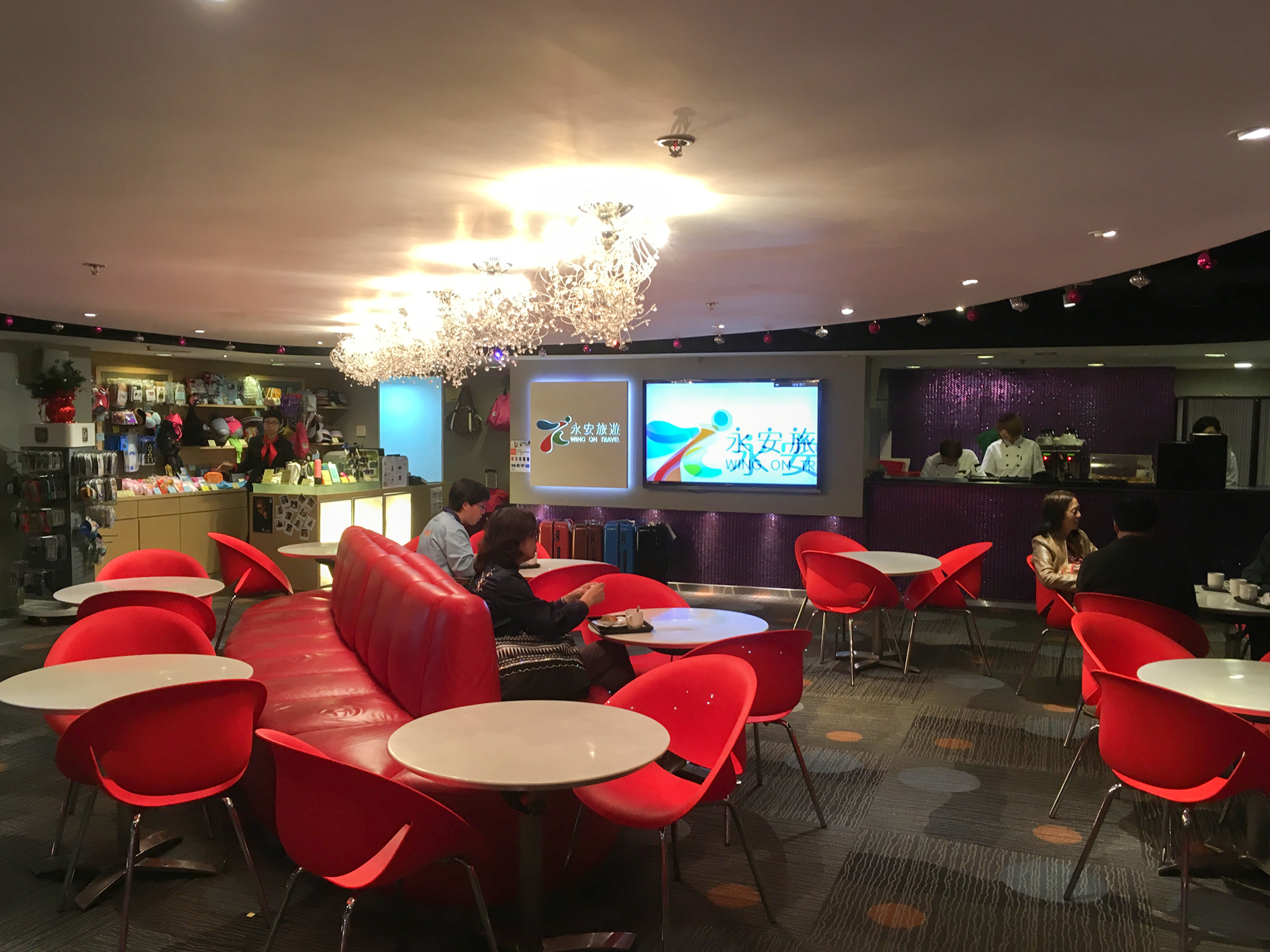 Wing On Travel Tsim Sha Tsui Lounge